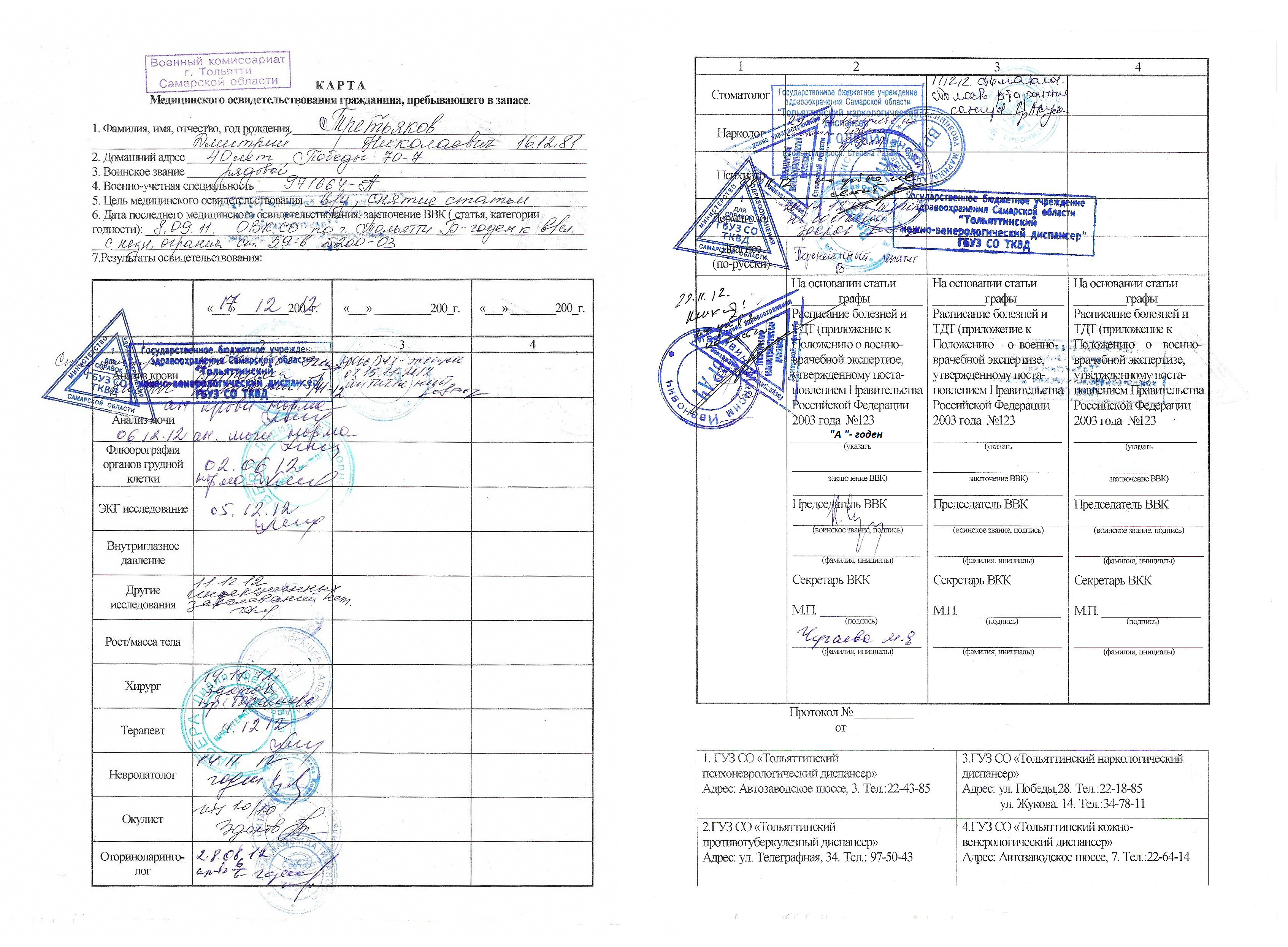 Map of the medical examination citizen are in a stock of Armed forces of Russia. Issued to citizens arriving in stock on their application for medical examination of the military-medical Commission of the IHC military commissariats to confirm or change the category of shelf life.